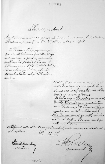 Mandate of the Romanian politician Octavian Pavelea, deputy in the Great National Assembly from Alba Iulia, on behalf of the electoral district of Beclean, 1918